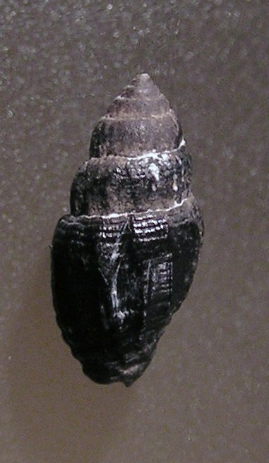 Vexillum ficulinum J. B. Lamarck, 1811; a ribbed miter from the family Costellariidae; Philippines